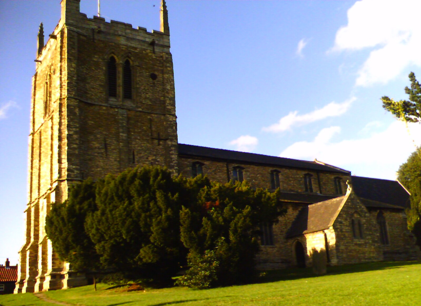 Saint Andrew's Church, Kirton in Lindsey, Lincolnshire. Photo by E Asterion u talking to me? 21:23, 11 August 2006 (UTC)